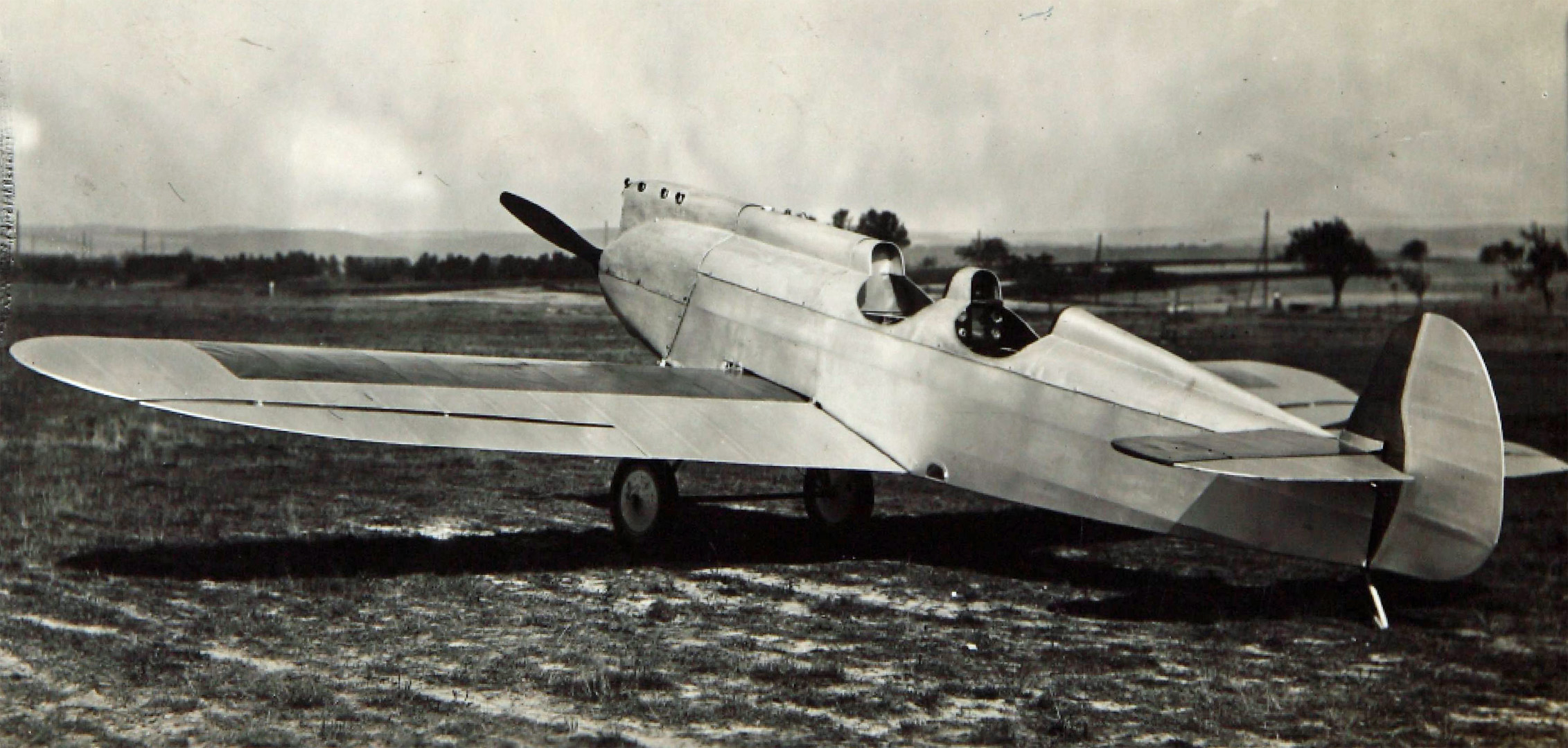 Raab-Katzenstein RK 25 "Ruhrland" racing aircraft for the Challenge International de Tourisme 1929